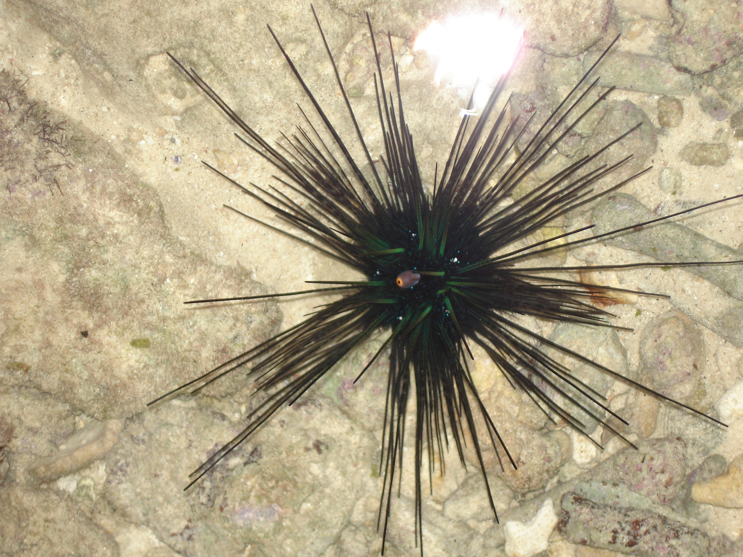 A diadem sea urchin (Diadema setosum) seen at Phuket.